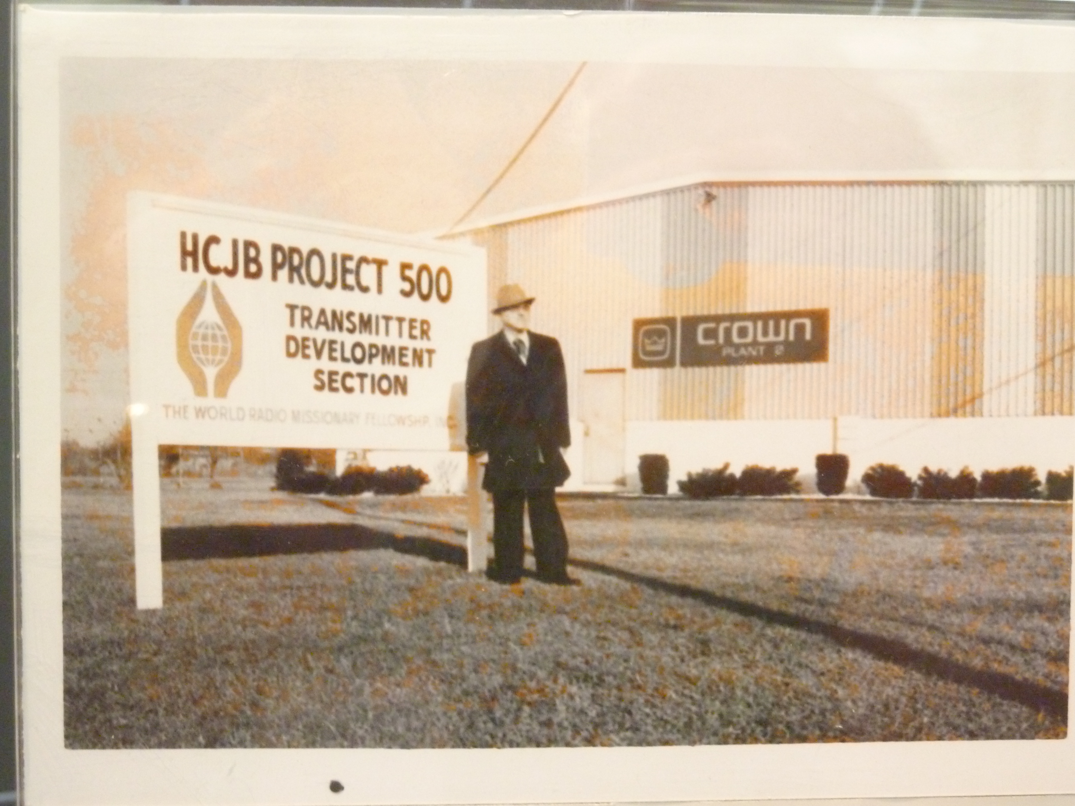 Dedication by Clarence C. Moore of Crown International.